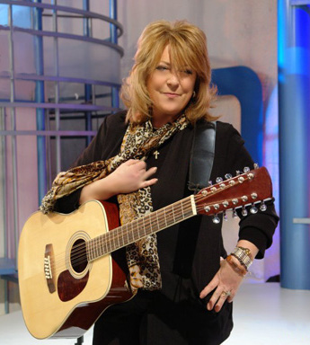 Nikki Hornsby, an American pop and country singer-songwriter and guitarist. Live on TV IB 3, Palma de Mallorca, Spain